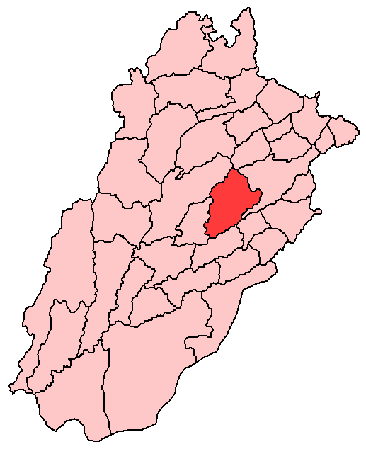 Map of Punjab with Faisalabad District highlighted